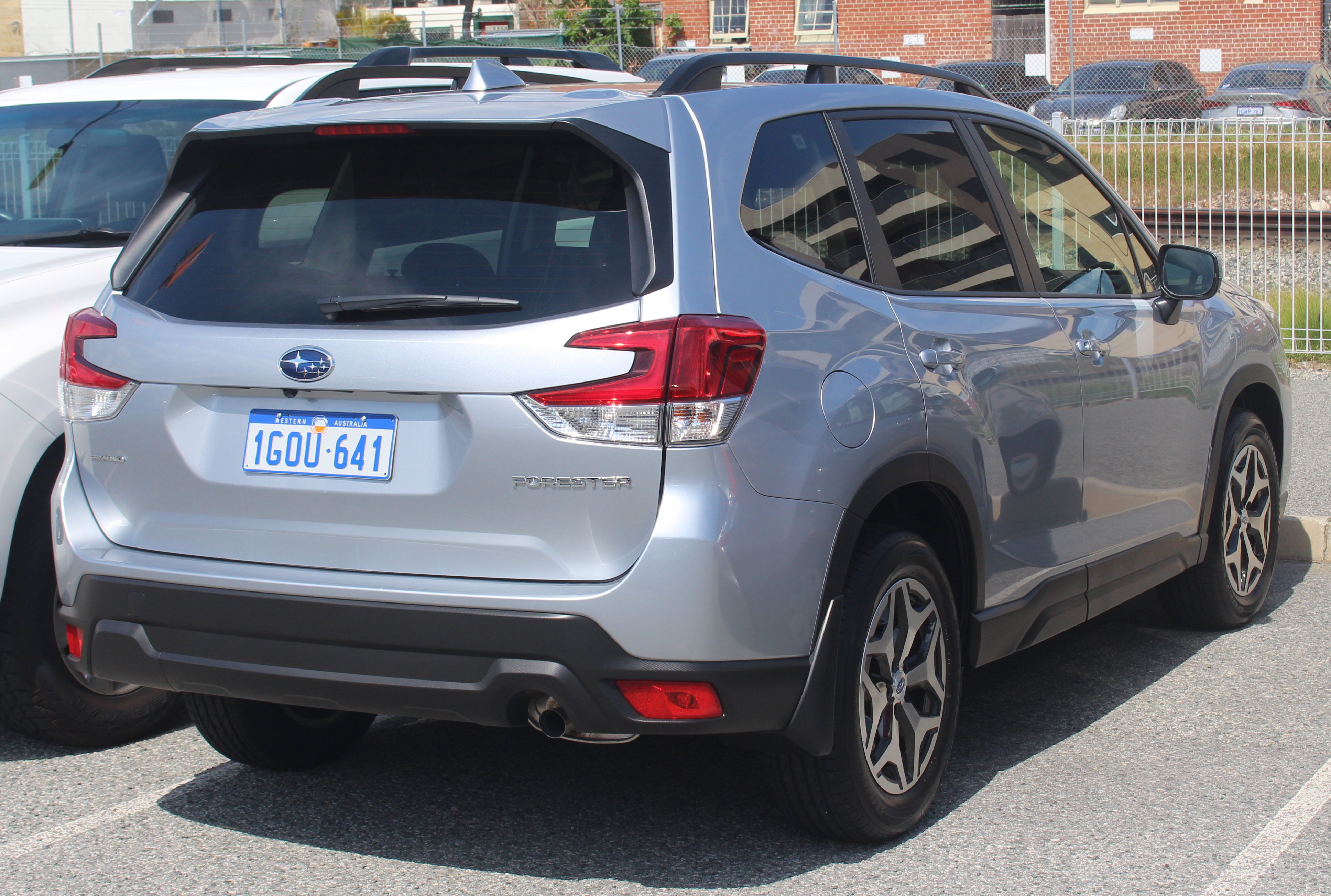 2018 Subaru Forester (SK MY19) 2.5i AWD wagon. Photographed in Fremantle, Western Australia, Australia.